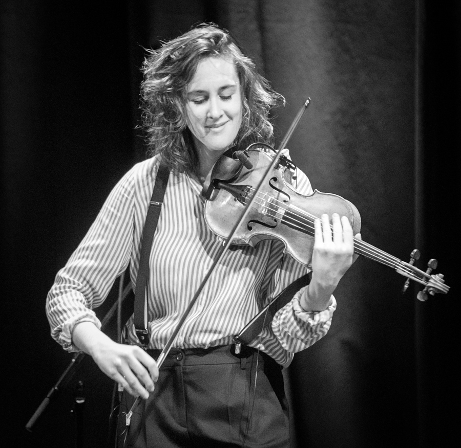 Fiona Monbet at the stage of Cosmopolite. The concert took place on 20. January 2017 in Oslo. This was the sixth visit of Monbet to Djangofestivalen.Lineup:Fiona Monbet (fiddle)Antoine Boyer (guitar)Pierre Cussac (accordion)Diego Imbert (double bass)